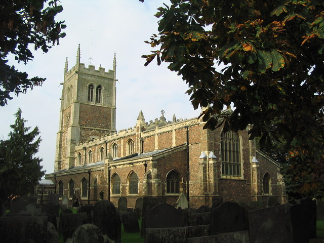 Church of St Peter and St Paul, Syston Fine, Charnwood granite church, largely restored, with an interesting 14th Century nave roof